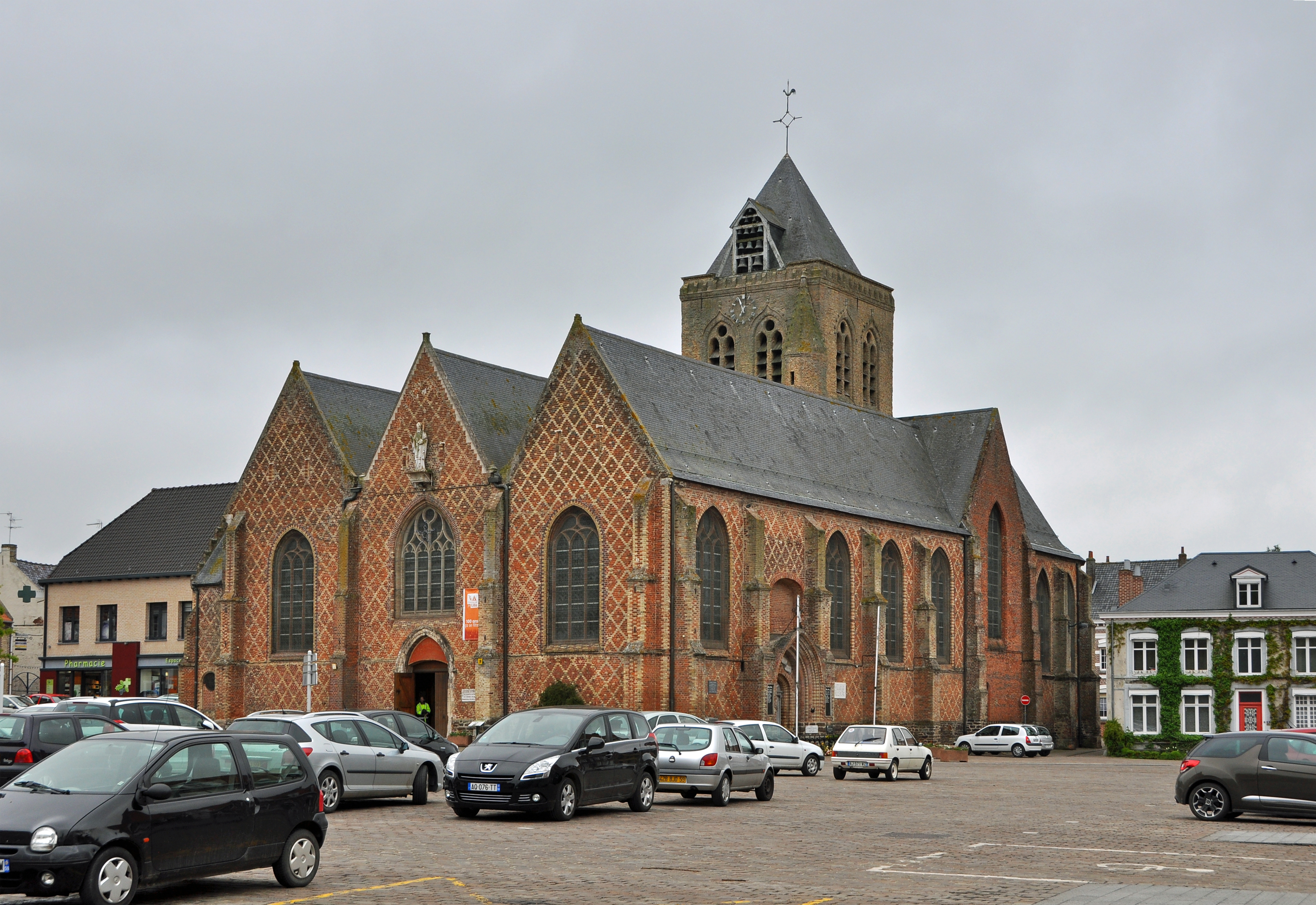 Esquelbecq (département du Nord, France): St Folquin's church